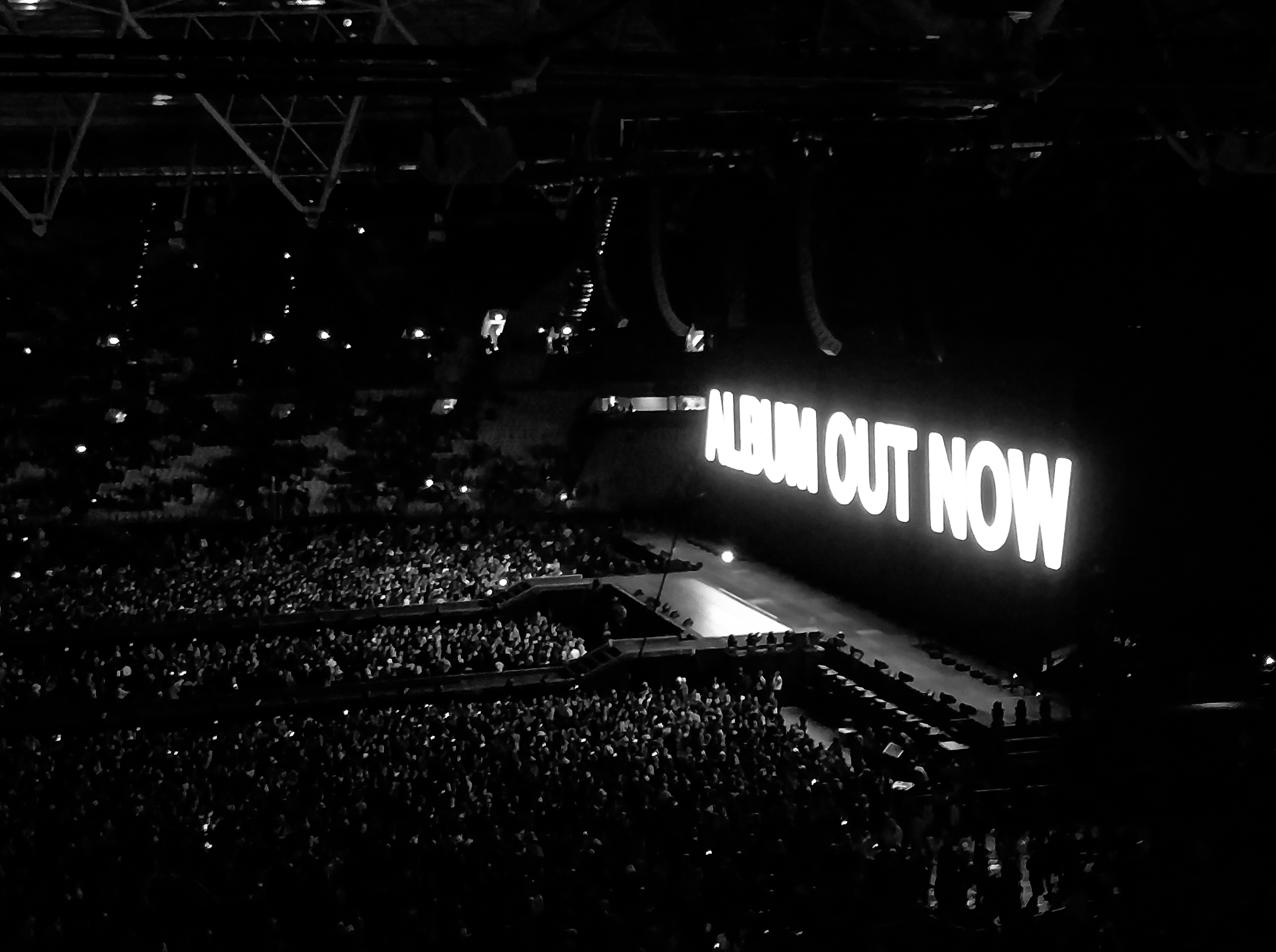 Beyoncé and Jay-Z release their joint album Everything Is Love at their final London performance during their On The Run II Tour. Following a viewing of their "Apeshit" video, the words "Album out now" appeared on screen.